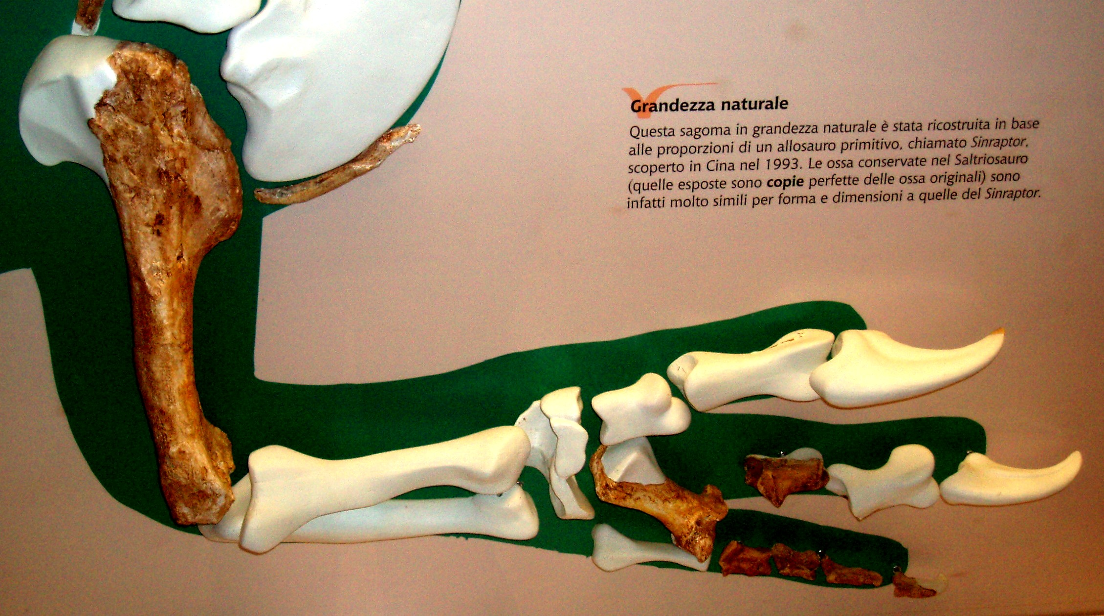 Forelimb of Saltriovenator, a ceratosaur theropod dinosaur